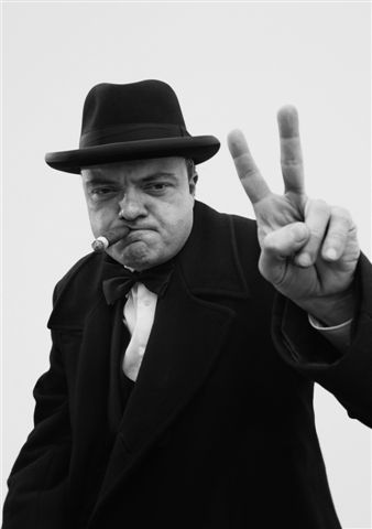 Elmar Hess: "Cold War - Private politician", 2009, c-print, 141 x 116 cm